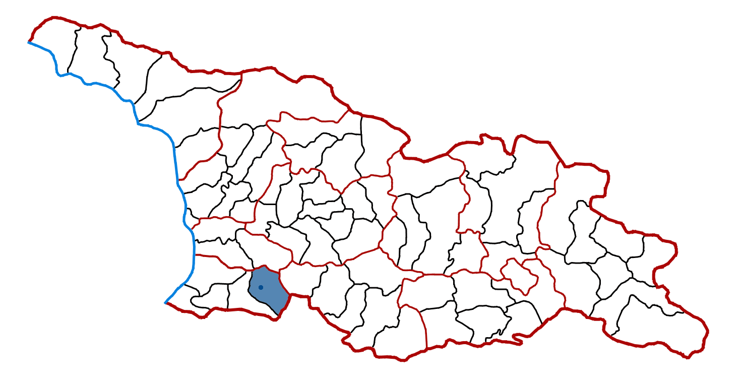 Location of Khulo district in Ajaria/Georgia